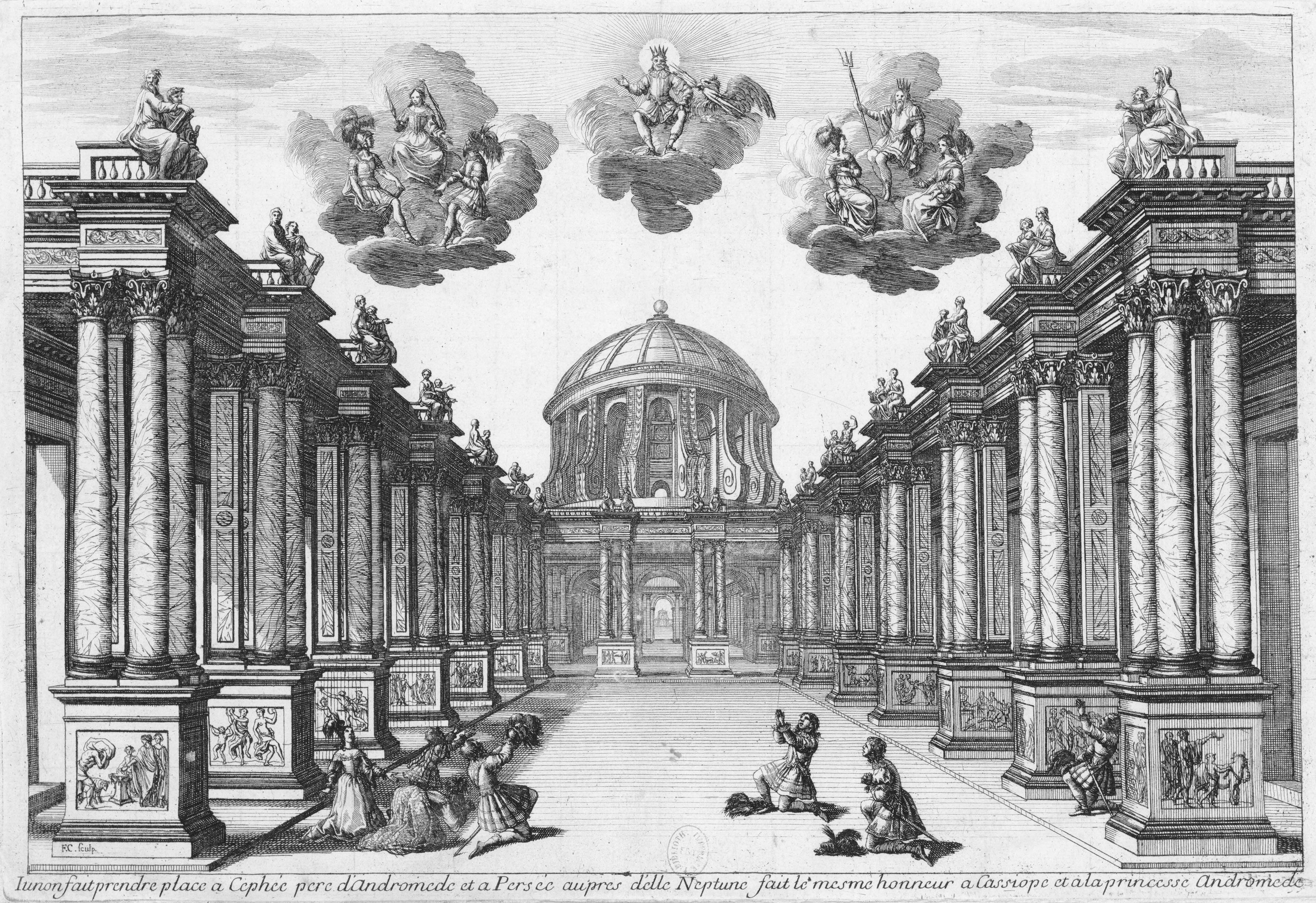 Set design for Act 5 of Pierre Corneille's Andromède as first performed on 1 February 1650 by the Troupe Royale at the Petit-Bourbon in Paris. Ref: Deierkauf-Holsboer, S. Wilma (1960). L'Histoire de la mise en scène dans le théâtre français à Paris de 1600 à 1673, plate XX. Paris: A. Nizet. OCLC 274849